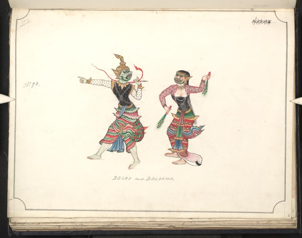 Watercolour painting by an unknown Burmese artist depicting 19th century Burmese life. BELOO and BELOOMA. Male and female ogre. More description at [1] Shelfmark: Ms. Burm. a. 5